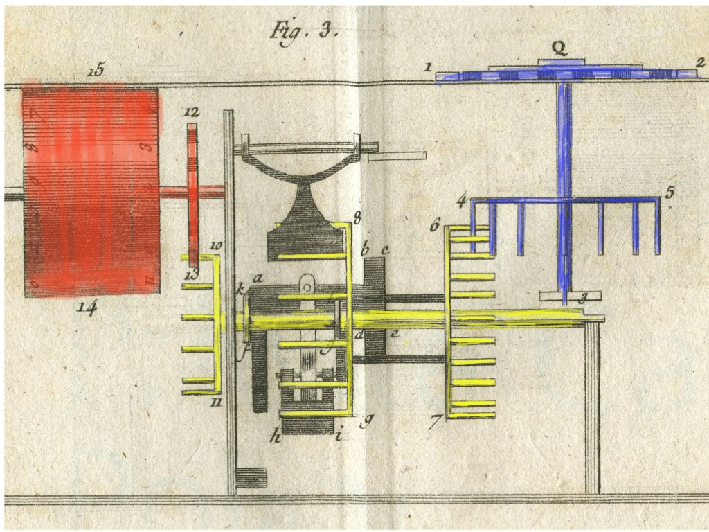 Detail of